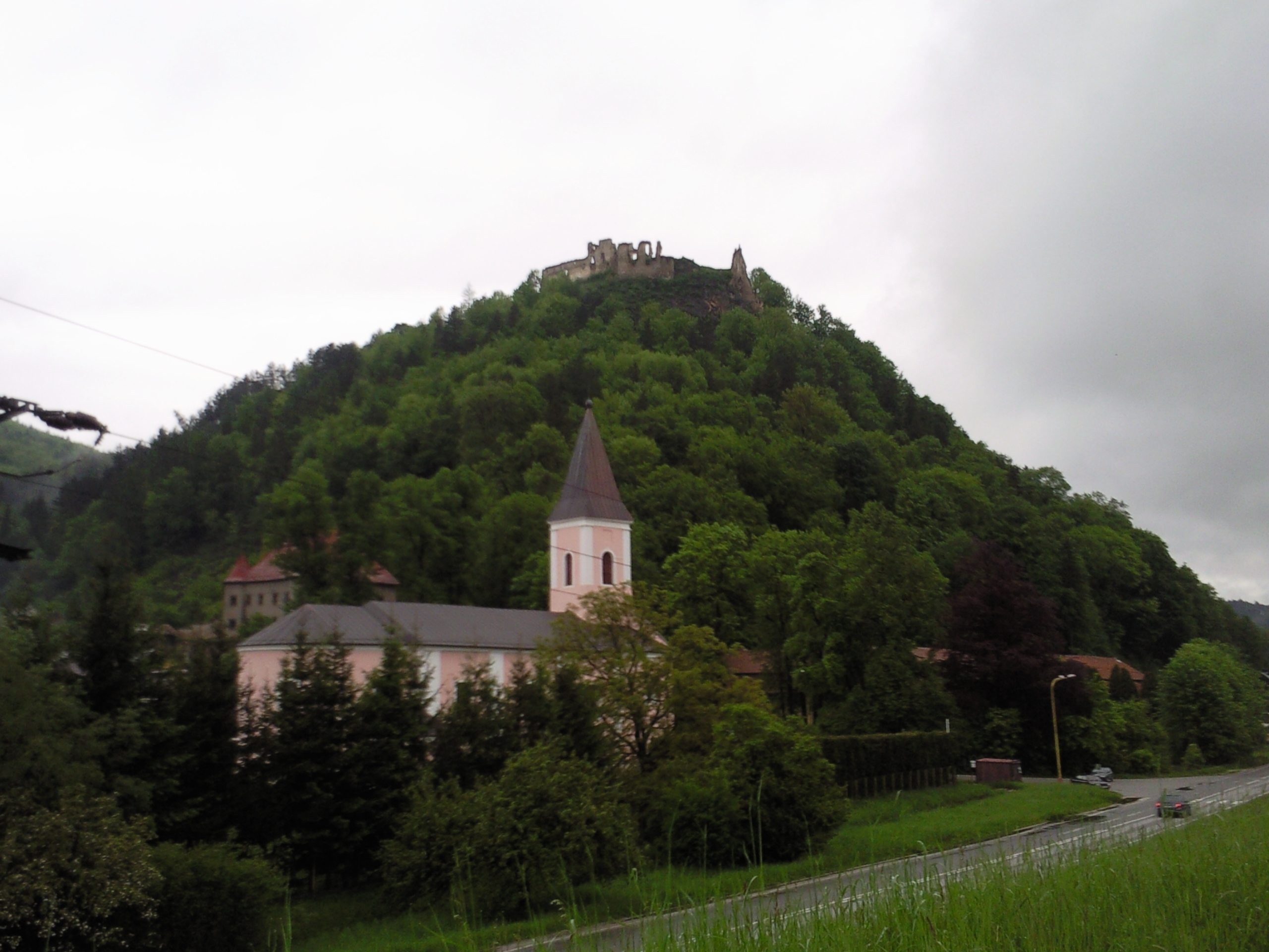 Church in Povayske Podhradie.